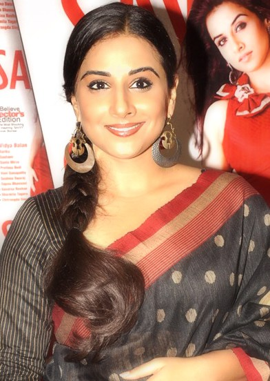 Vidya Balan unveils Savvy magazine's latest issue